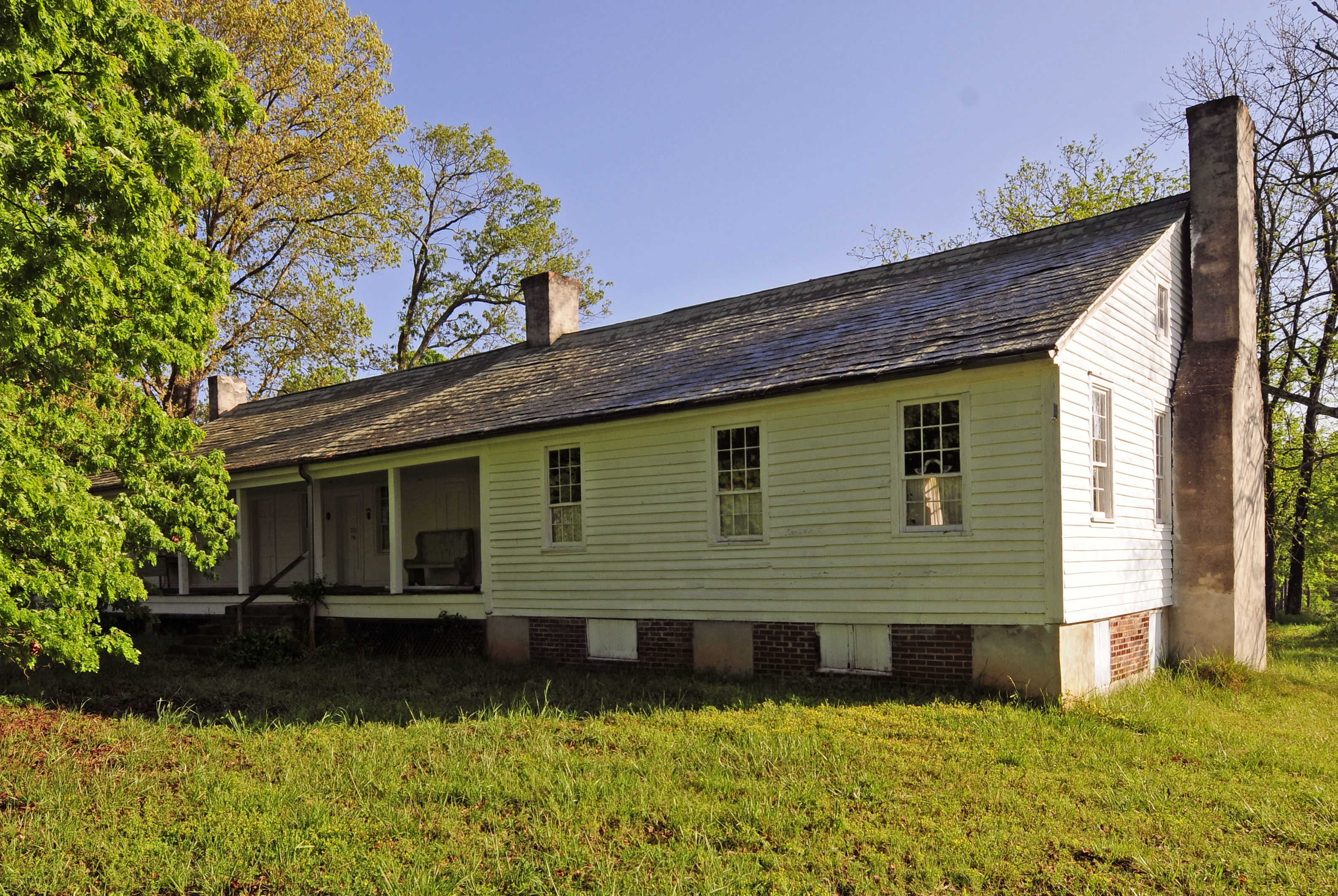 Cornwell Inn